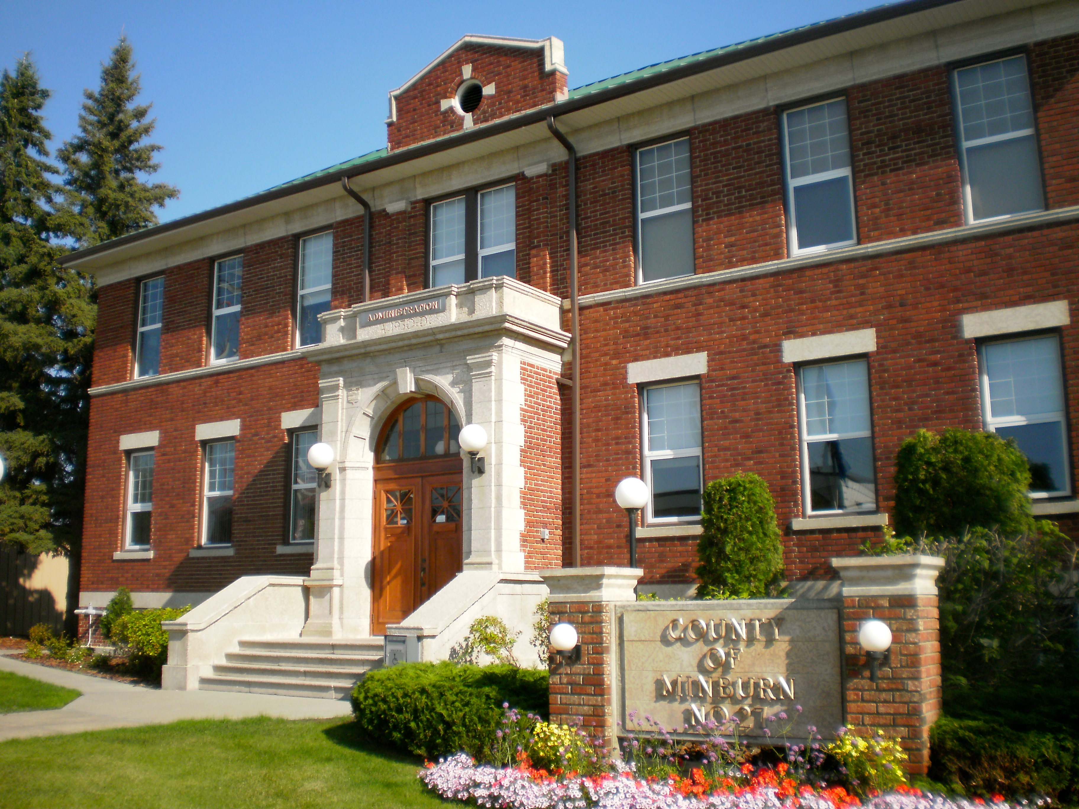 County of Minburn office building in Vegreville.